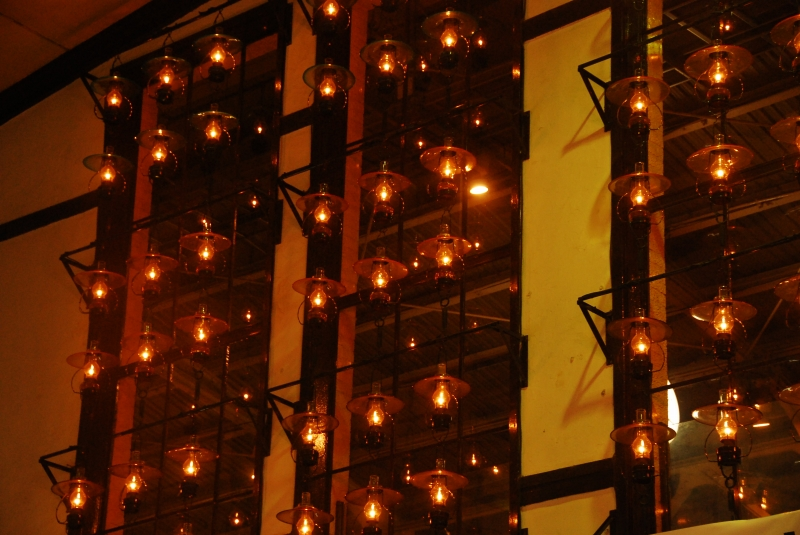 This is the picture of the lamps which are in the entrance hall of Otaru Station. They were presented to the station by Kitaichi Grass Corporation.